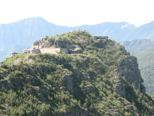 General overview of the Maginot Line Fort of Rimplas. Secteur fortifié des Alpes-Maritimes of the Apline Line)